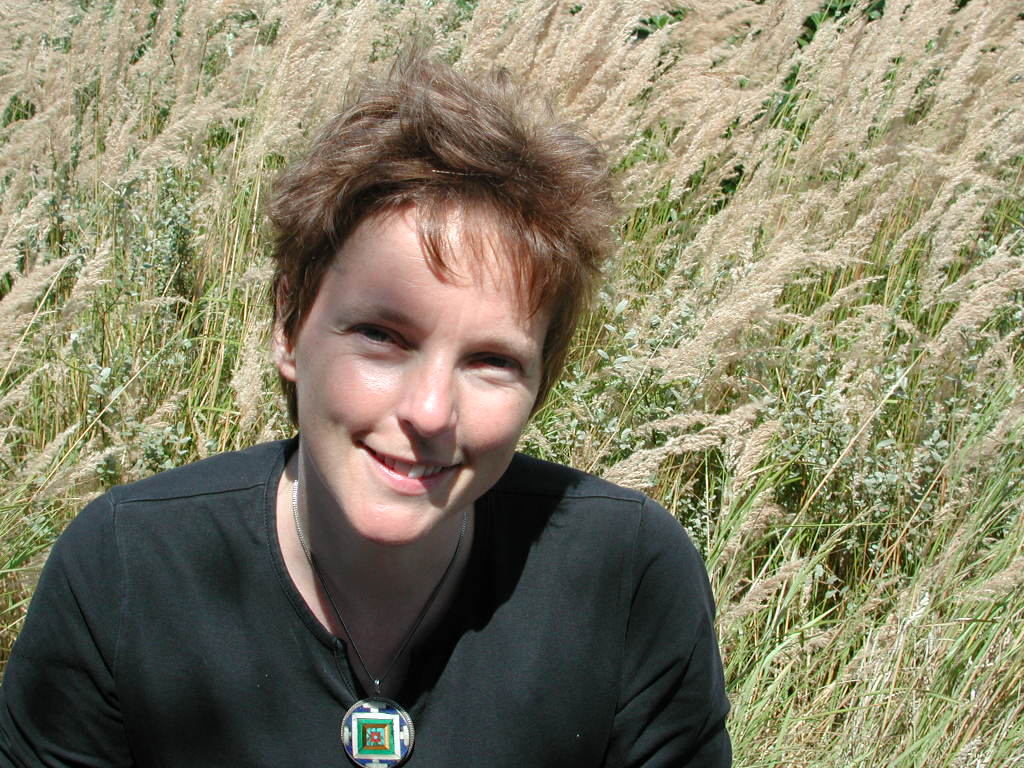 Rozalie Hirs, Schiermonnikoog, 2001